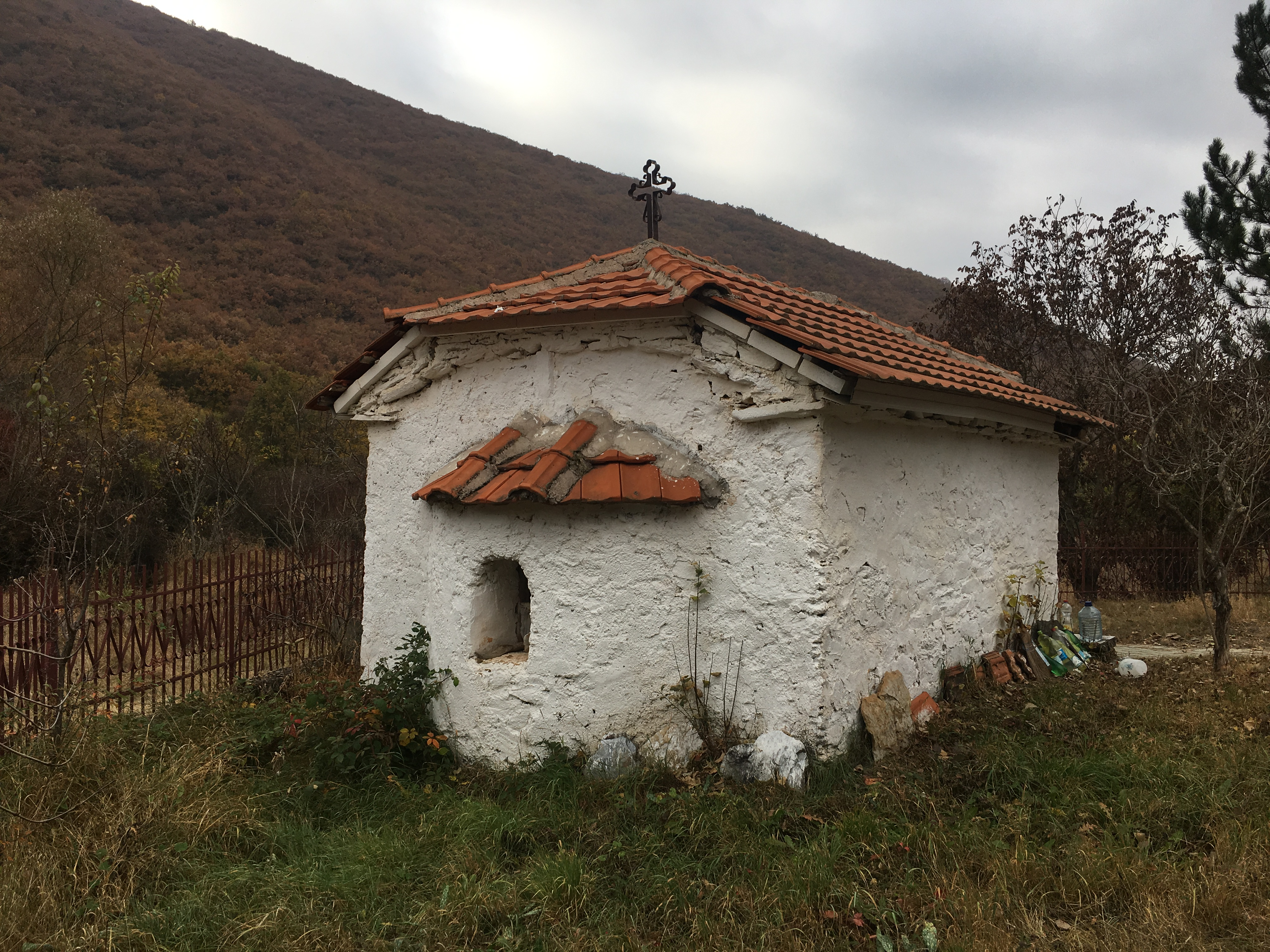 Wikiexpedition to Kopačka